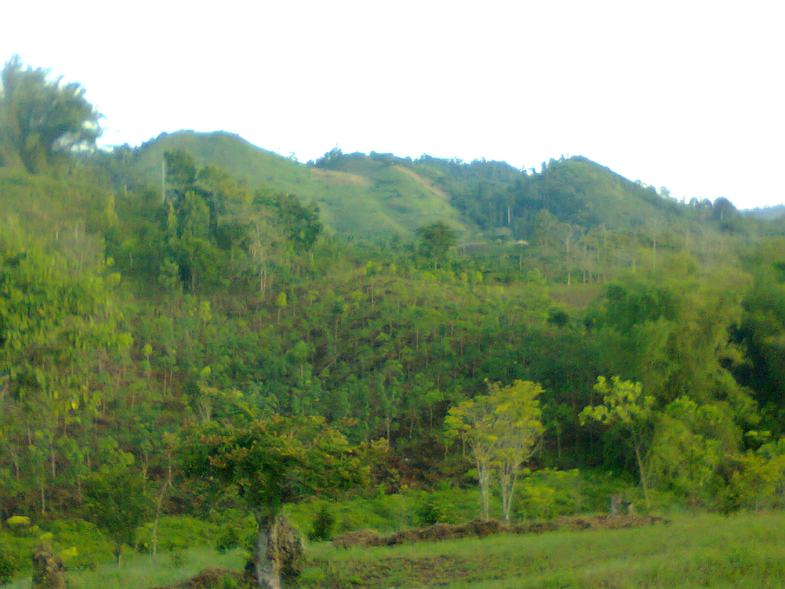 The Topography of Lebak, Sultan Kudarat. Photo taken in Barangay Bolebak.